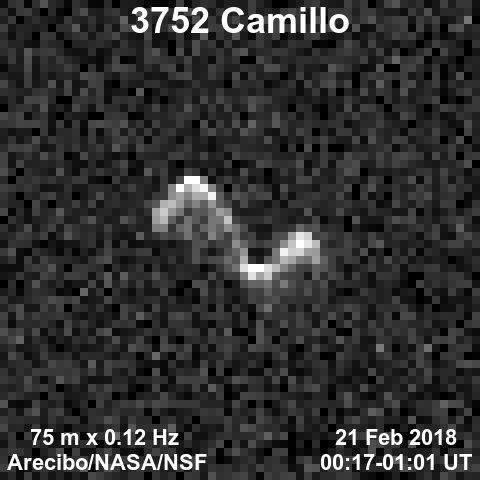 On 21 Feb 2018, radar imagery of 3752 Camillo was obtained with the Arecibo Radiotelescope in Puerto Rico. Optical observations suggested an elongated body with a slow rotation, but radar reveals an unexpectedly angular, double-lobed shape seen in very few near-Earth asteroids.